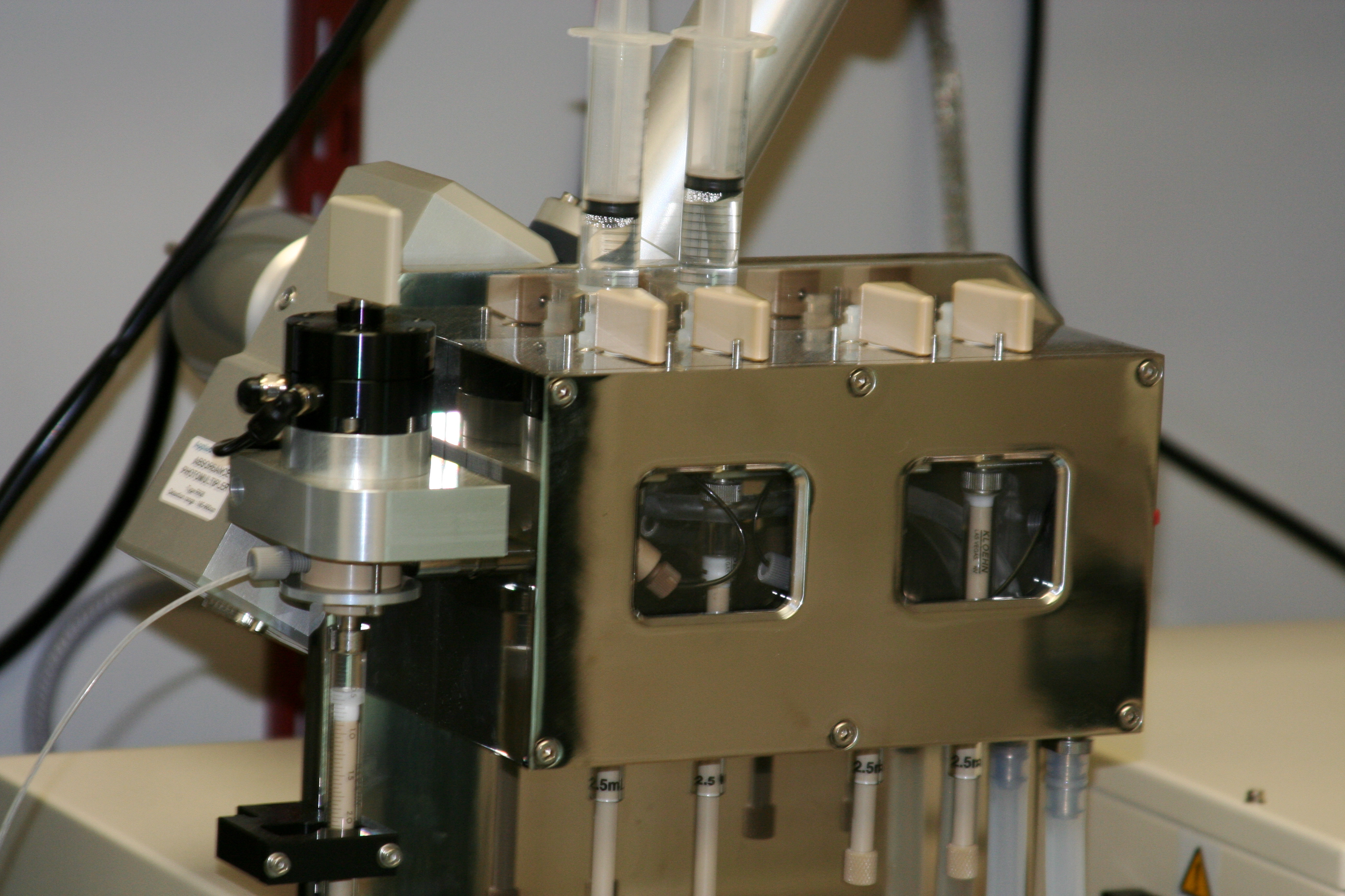 Stop-flow equipment at a biochemistry research laboratory for measuring rapid reactions and properties such as enzyme kinetics.